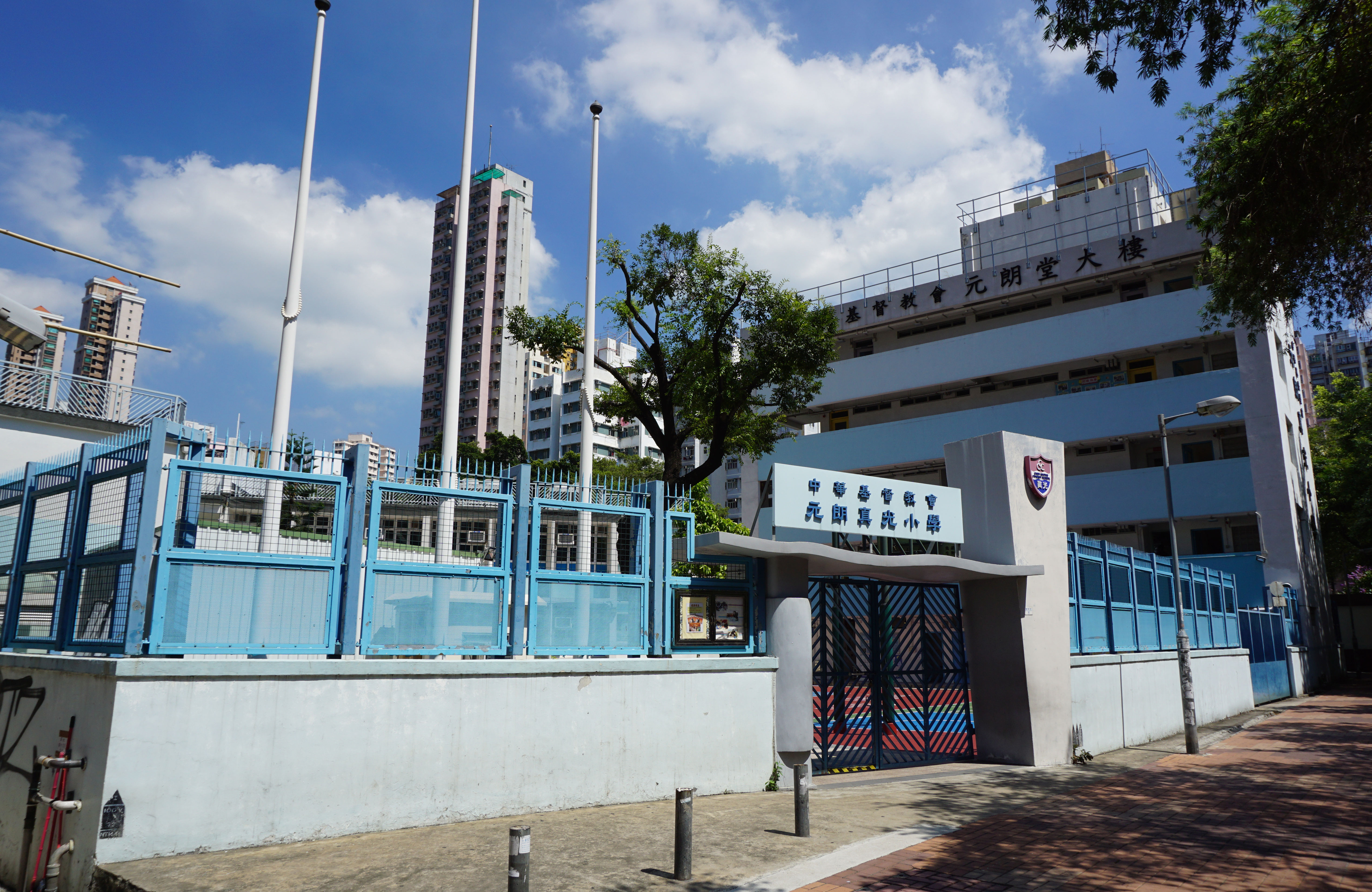 CCC Chun Kwong Primary School in Yuen Long, Hong Kong.